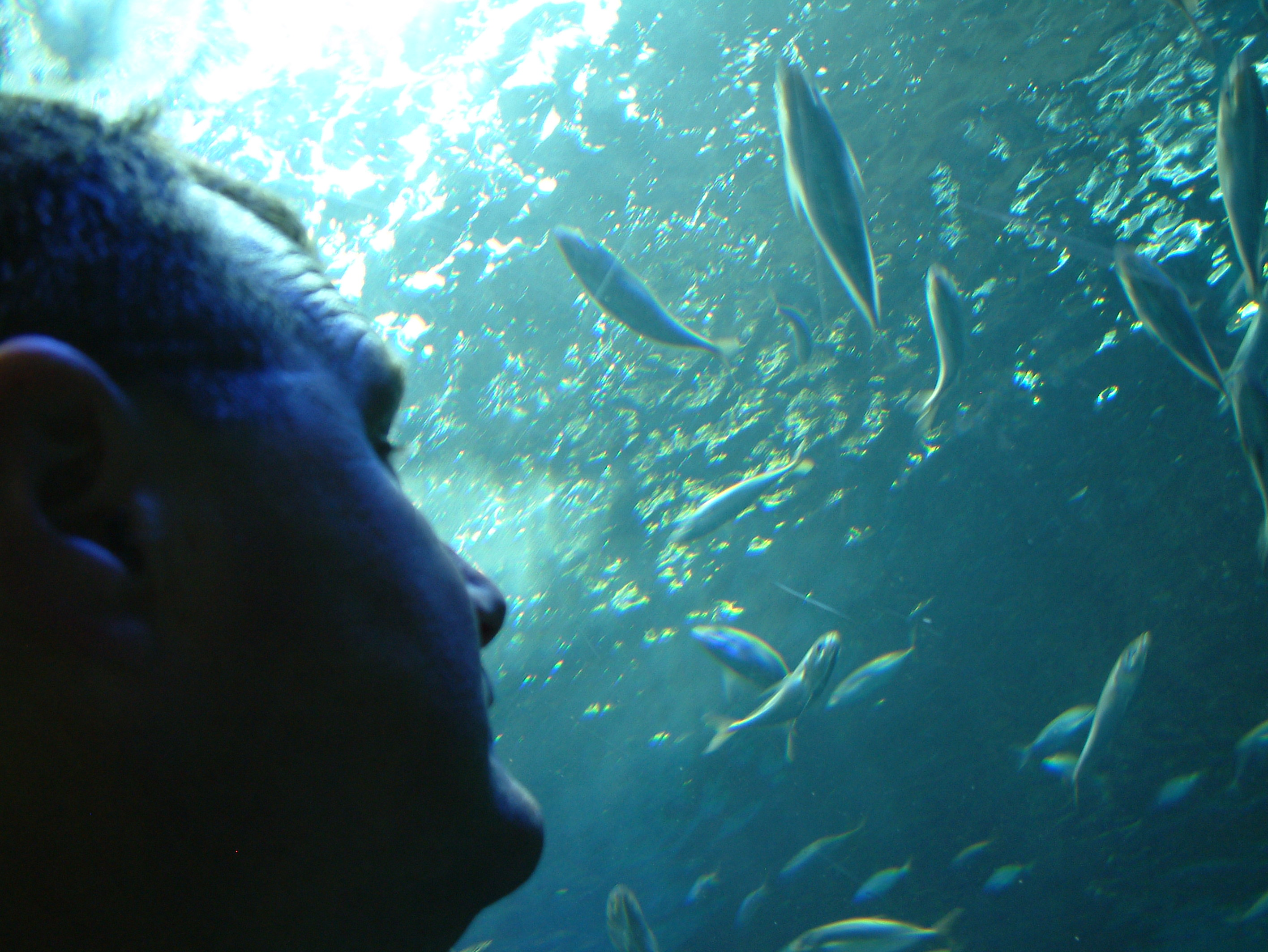 Swirling thoughts: Caught in a stream of consciousness inside the San Sebastian Aquarium.